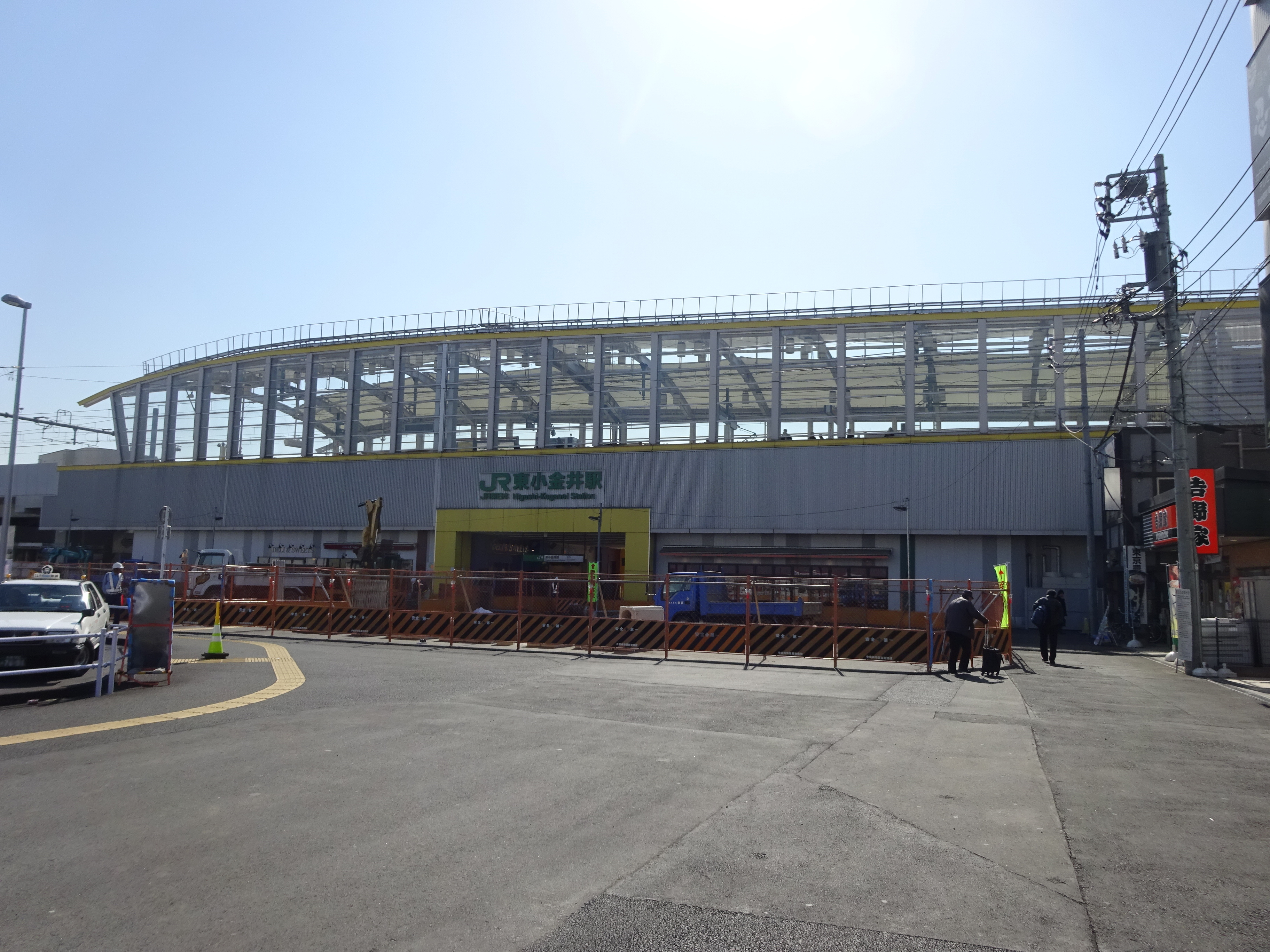 North Entrance of Higashi-Koganei Station